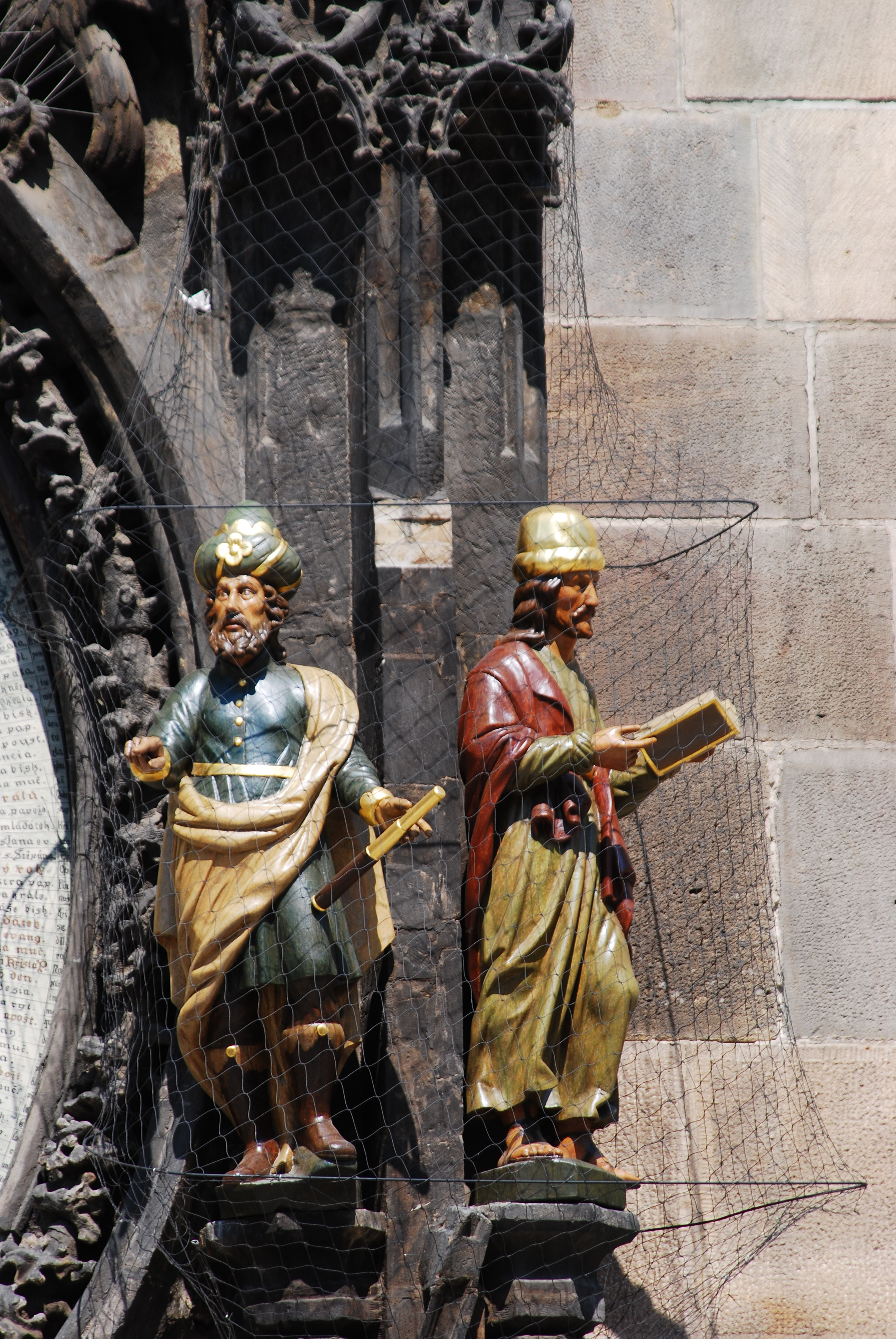 The Prague Astronomical Clock or Prague Orloj (Czech: Pražský orloj, praʒski: ɔrlɔi) is a medieval astronomical clock located in Prague, the capital of the Czech Republic. The Orloj is mounted on the southern wall of Old Town City Hall in the Old Town Square and is a popular tourist attraction. The Orloj is composed of three main components: the astronomical dial, representing the position of the Sun and Moon in the sky and displaying various astronomical details; "The Walk of the Apostles", a clockwork hourly show of figures of the Apostles and other moving sculptures; and a calendar dial with medallions representing the months. Click below for a full demonstration of how the orlo works